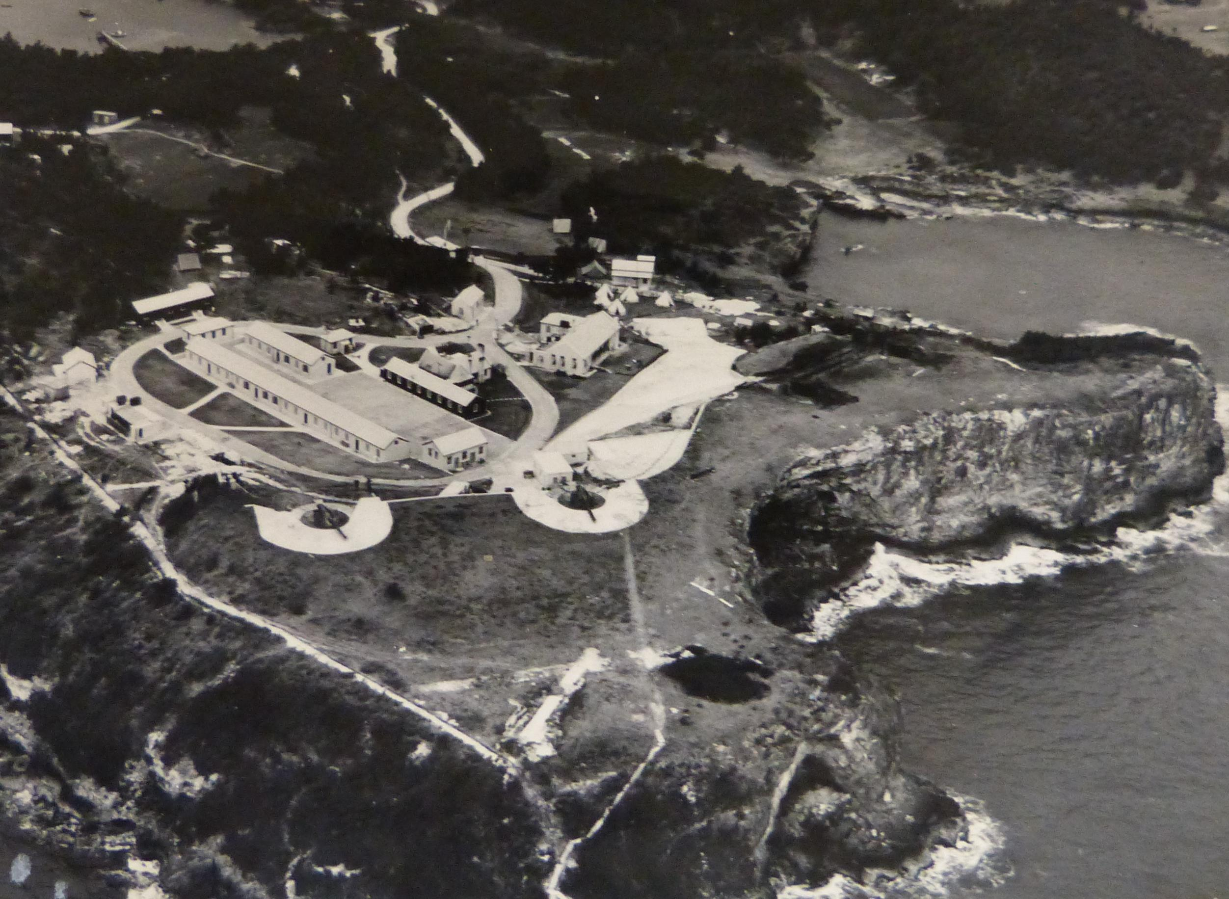 St. David's Battery, Bermuda in 1942, when it served as the Examination Battery for the colony.